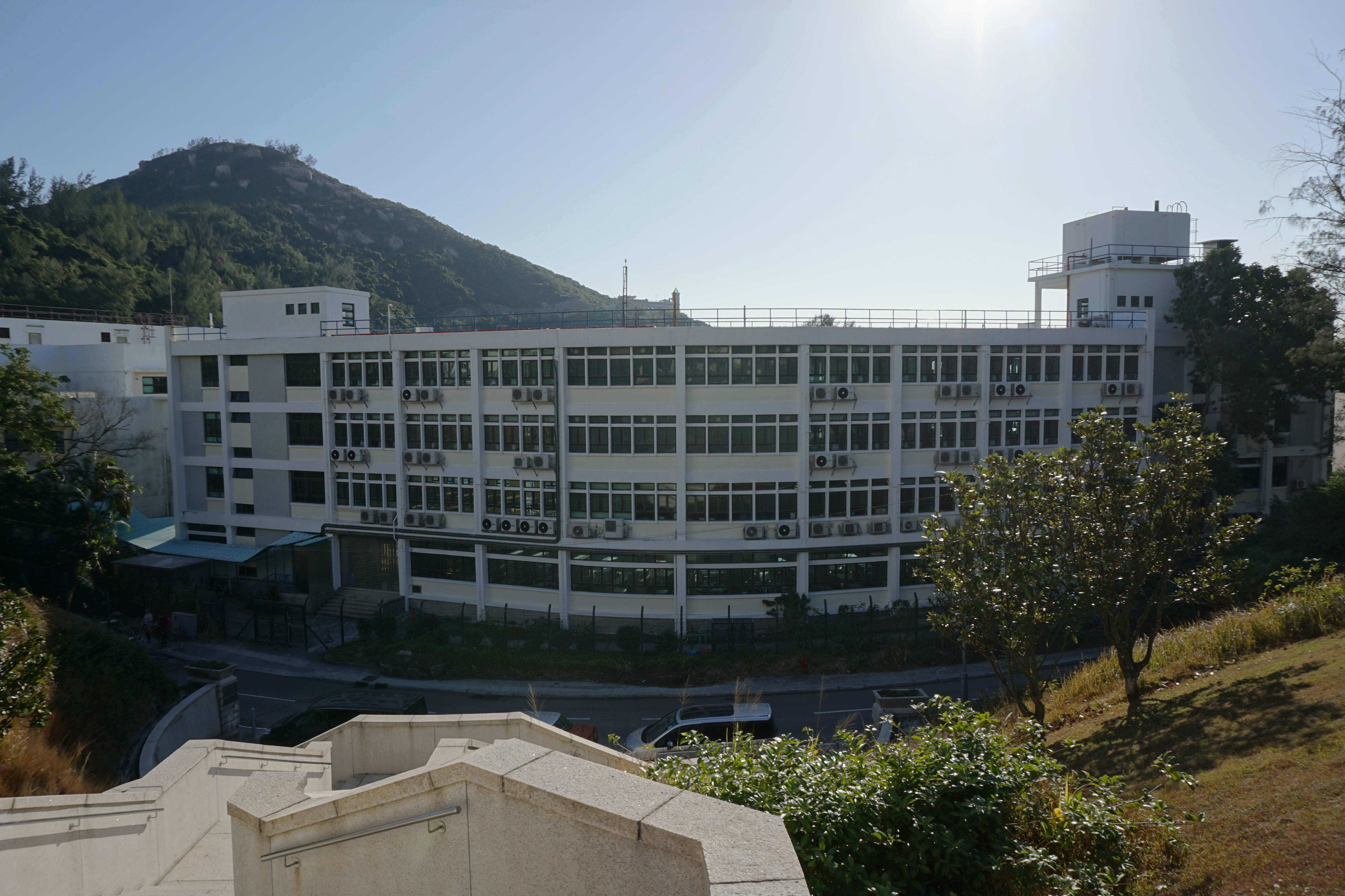 St. Stephen's College Preparatory School in Stanley, Hong Kong.